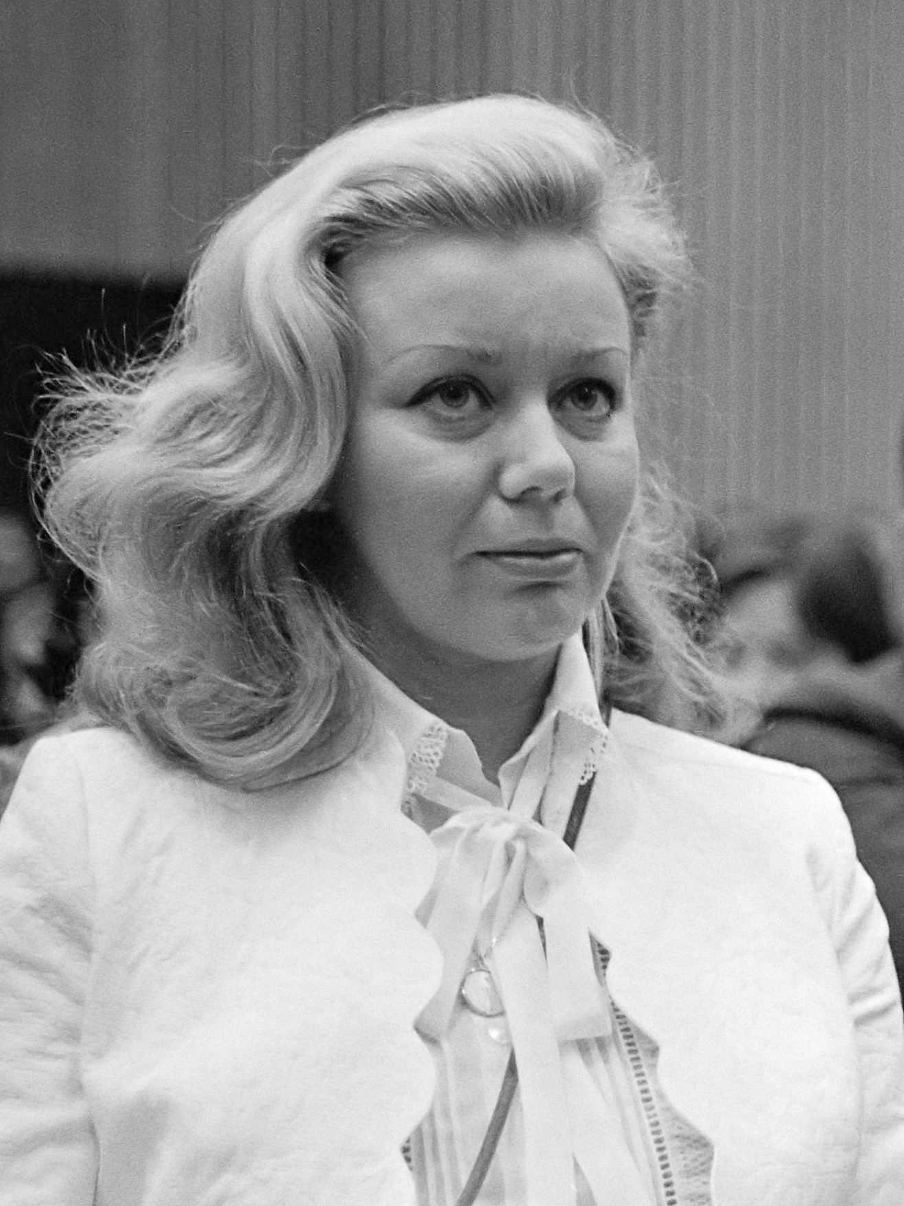 Opening tentoonstelling van schilder Carel Willink in het Stedelijk Museum in Amsterdam; Carel Willink en vrouw Sylvia 22 februari 1980